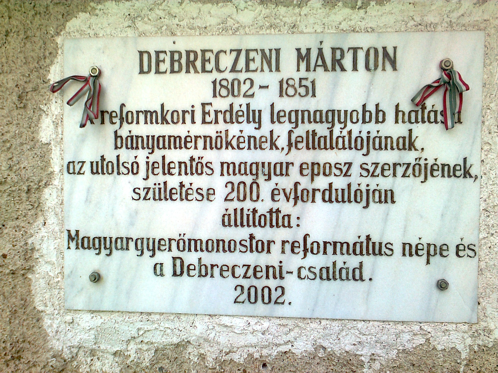 Memorial plaque of Márton Debreczeni (1802-1851) in Manastireni (Romania)